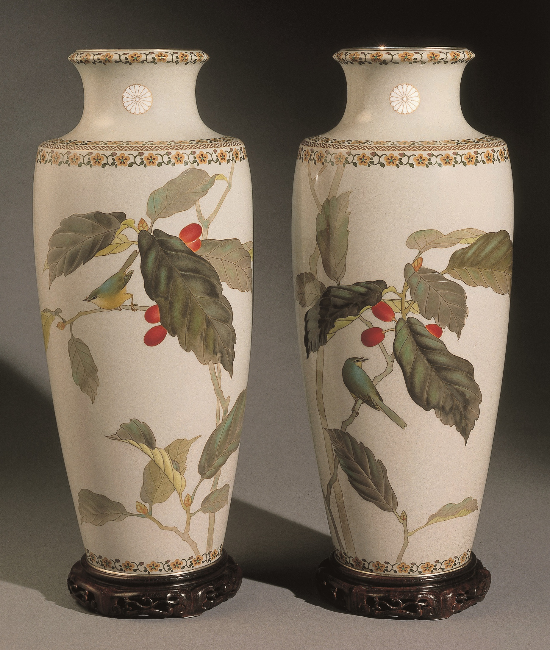 Pair of Imperial Presentation Vases, Kyoto, Japan, 1910 or later, with the silver wire seal of Ando Jubei. Bearing the sixteen-petalled chrysanthemum symbol of the Japanese Imperial Household. Described at